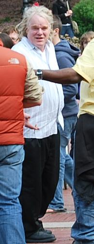 Actor Philip Seymour Hoffman on the set of Jack Goes Boating in Central Park, New York.